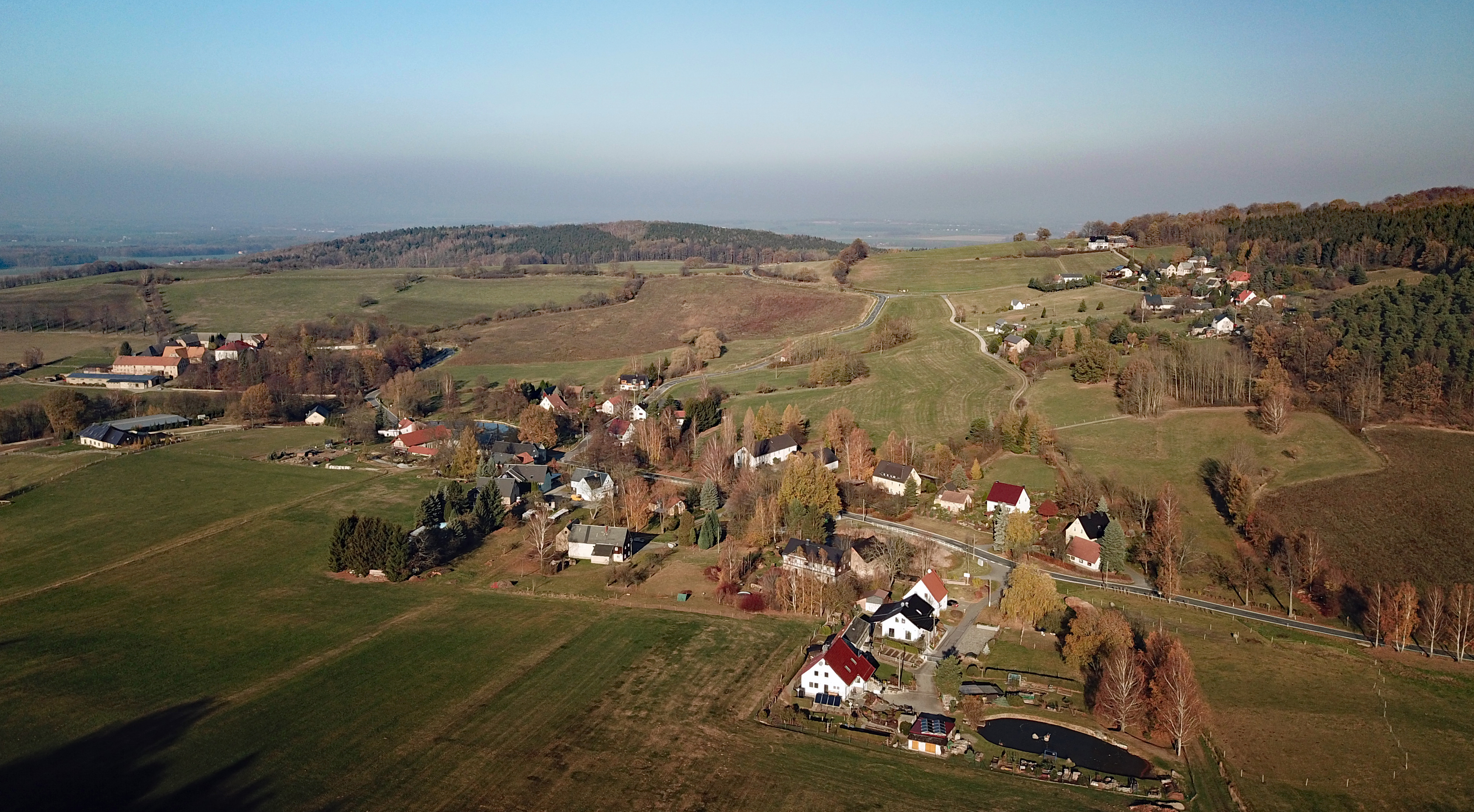 Arnsdorf (Doberschau-Gaußig, Saxony, Germany) Hornjoserbsce: Powětrowy wobraz Warnoćic